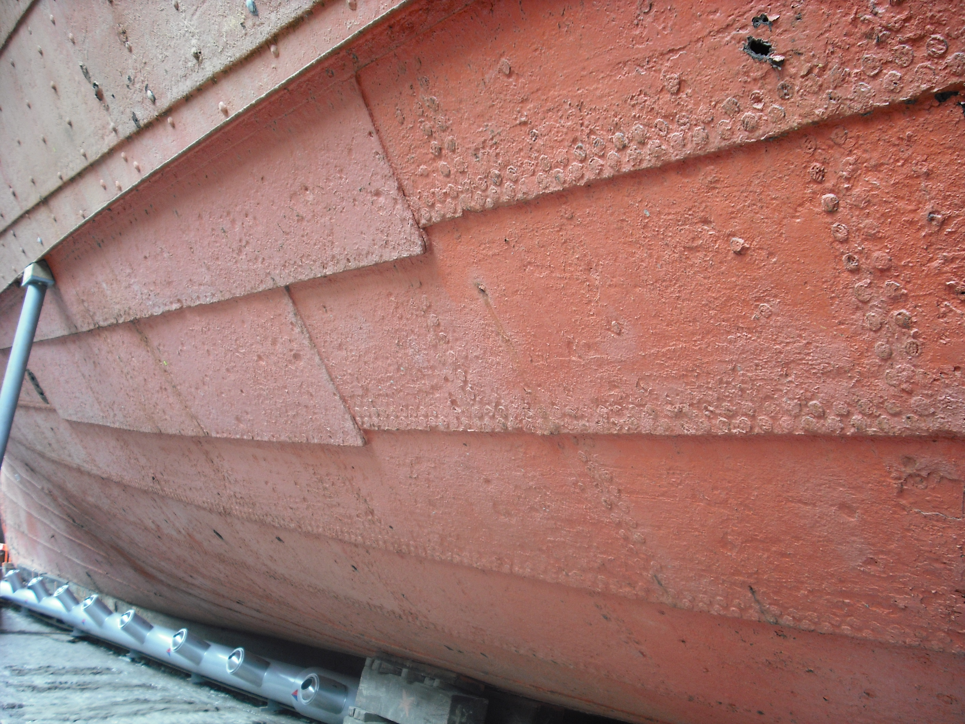 Clinker built iron plating on the lower hull of the SS Great Britain. Although used on the lower hull of the Great Britain, clinker building wasn't a common choice for long. Although strong, it required a tapered (i.e. expensive) liner to be fitted beneath each plate to fit closely to the frames. Corlett, Ewan (2005) The Iron Ship (2nd ed. 2nd revision ed.), Conway Maritime Press, pp. 27-28 ISBN: 0-85177-549-7.